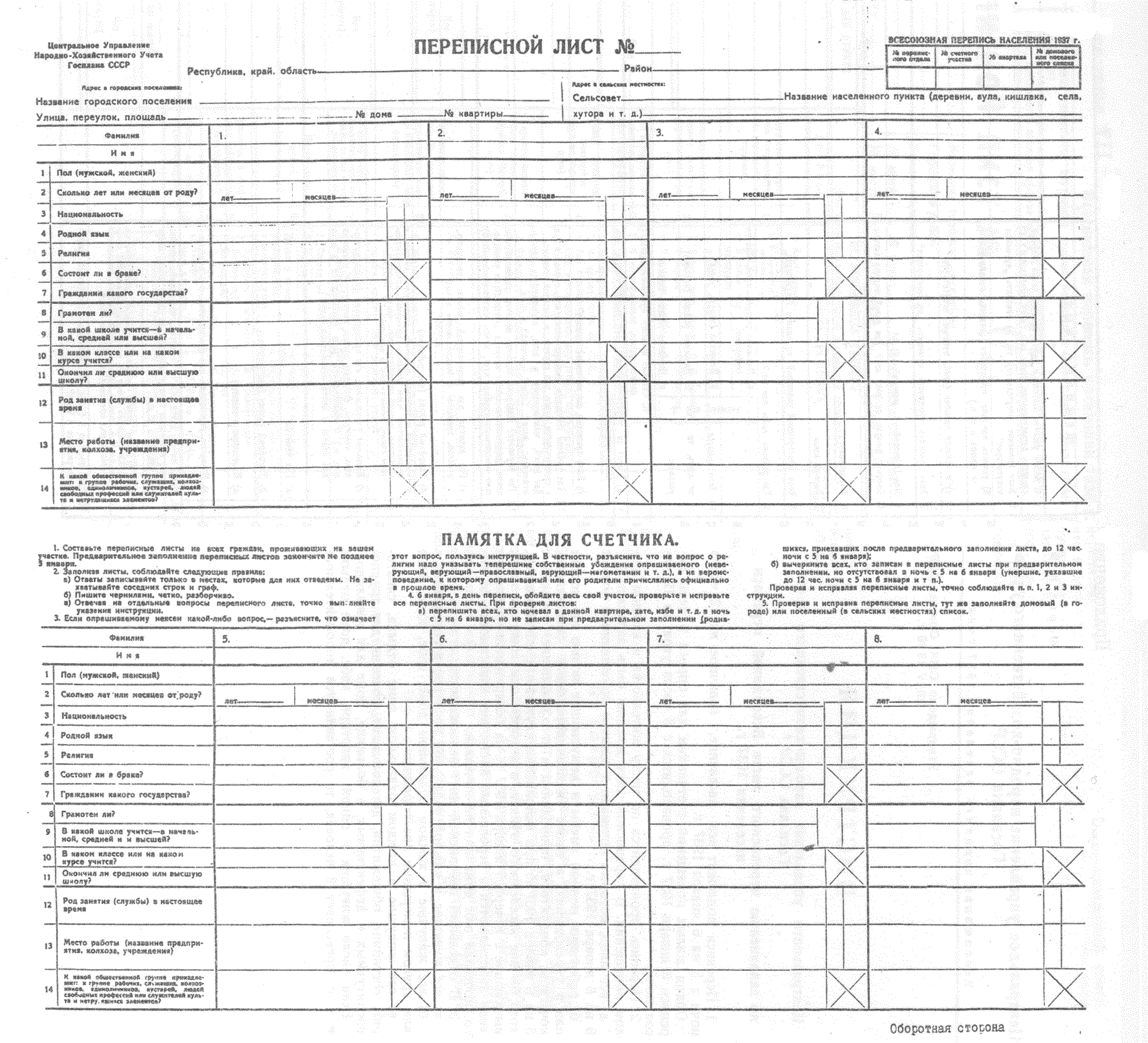 Form for the Soviet Census (1937)